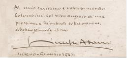 Year 1943 - Giuseppe Adami hopes forthcoming collaboration with the Maestro Giancarlo Colombini